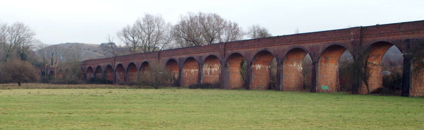 Hockley Railway Viaduct in 2005, with the M3 Twyford Down cutting beyond.